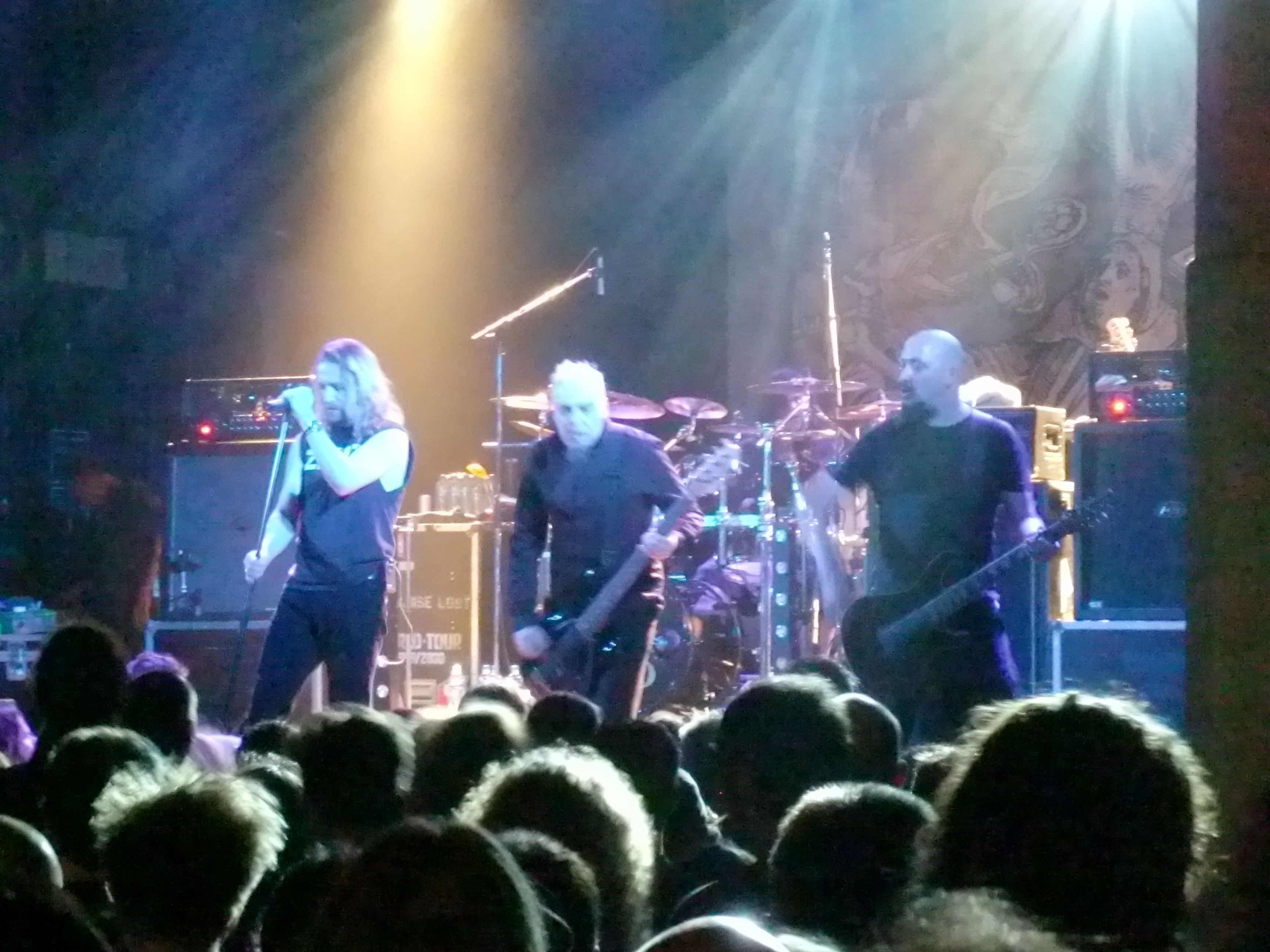 Paradise Lost gig at Tivoli (Oudegracht, Utrecht, Netherlands), 10 November 2009.